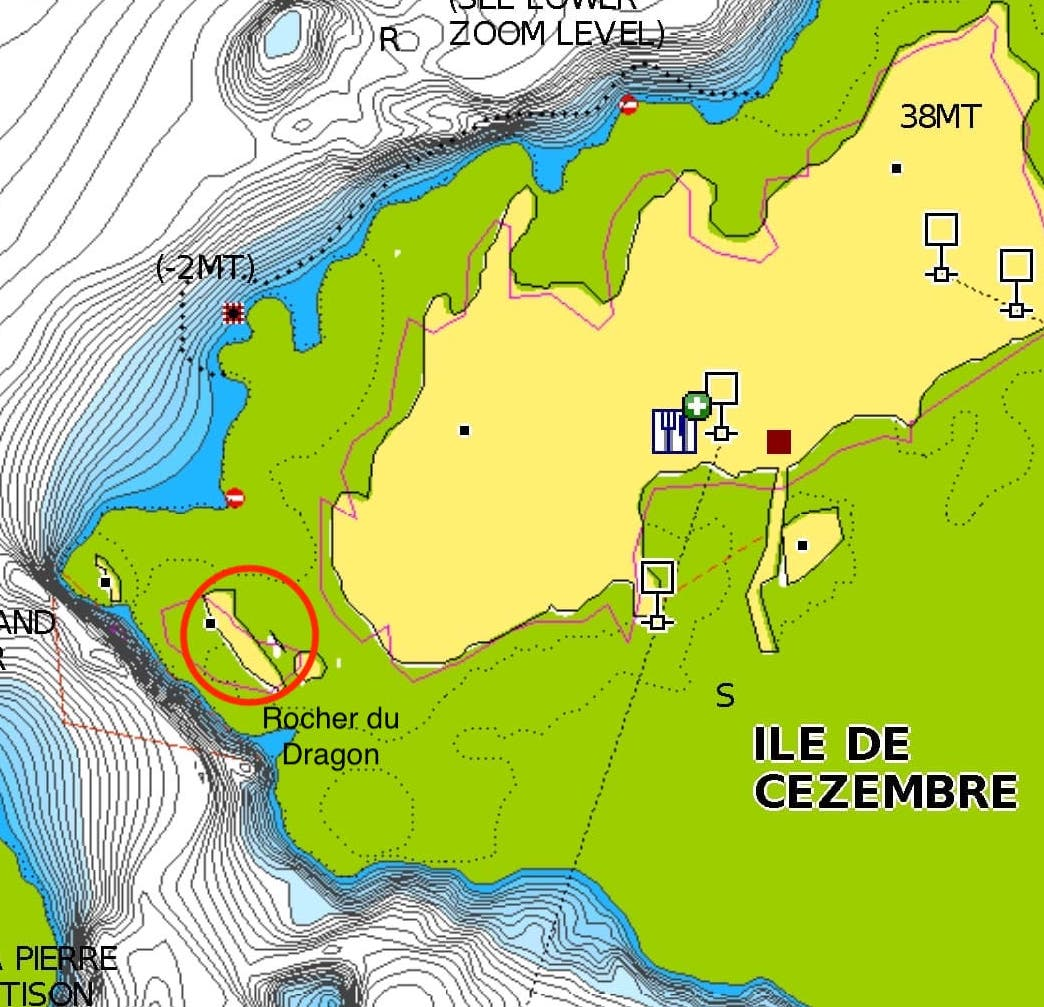 Rocher du Dragon (Baie de Saint Malo)